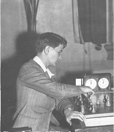 Sonja Graf plays at the Utrecht Chess Club against the local champion (Meijlink). Utrecht, Netherlands